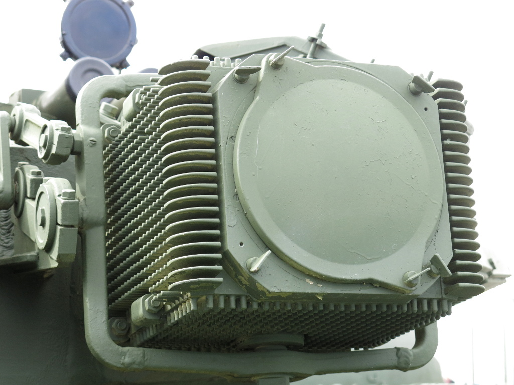 Electro-optical/infrared (IR) "dazzler" of Shtora-1 system. Its opening is protected by a round cover. Army-2016